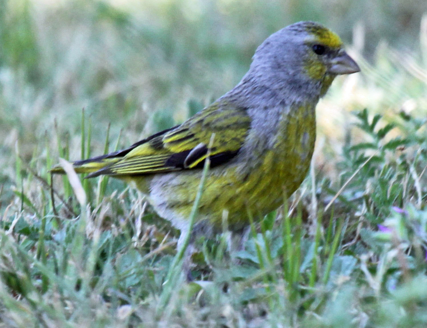 Cape Canary (Serinus canicollis) - Oudtshoorn, South Africa